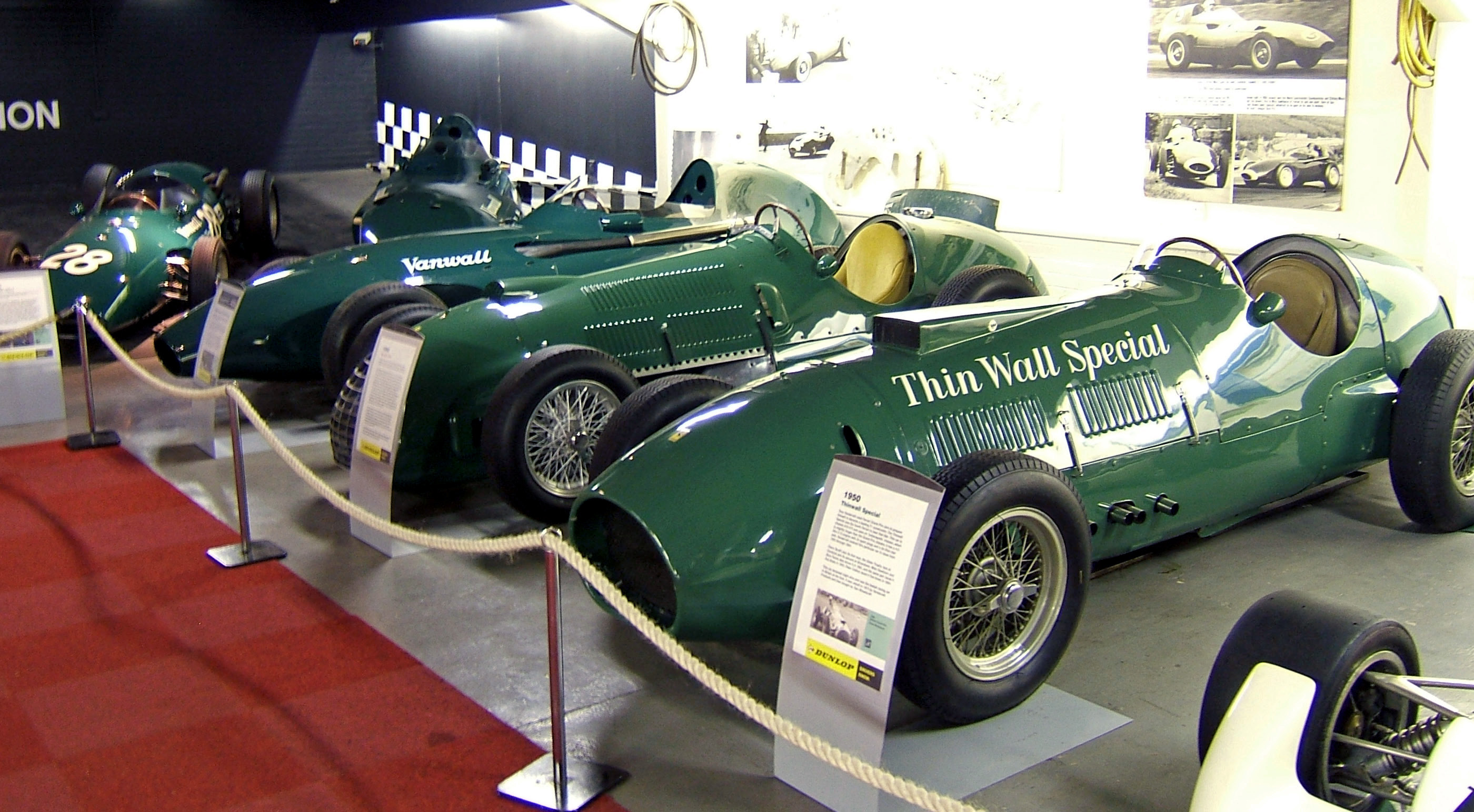 One half of the Donington Grand Prix Collection's Vanwall collection. Left to right: VW14 rear-engined car; spare 1958-spec. bodywork; VW5, Stirling Moss's 1958 British Grand Prix winner; the third Thinwall Special (Ferrari 125/375); the fourth Thinwall Special (Ferrari 375, Indianapolis chassis).